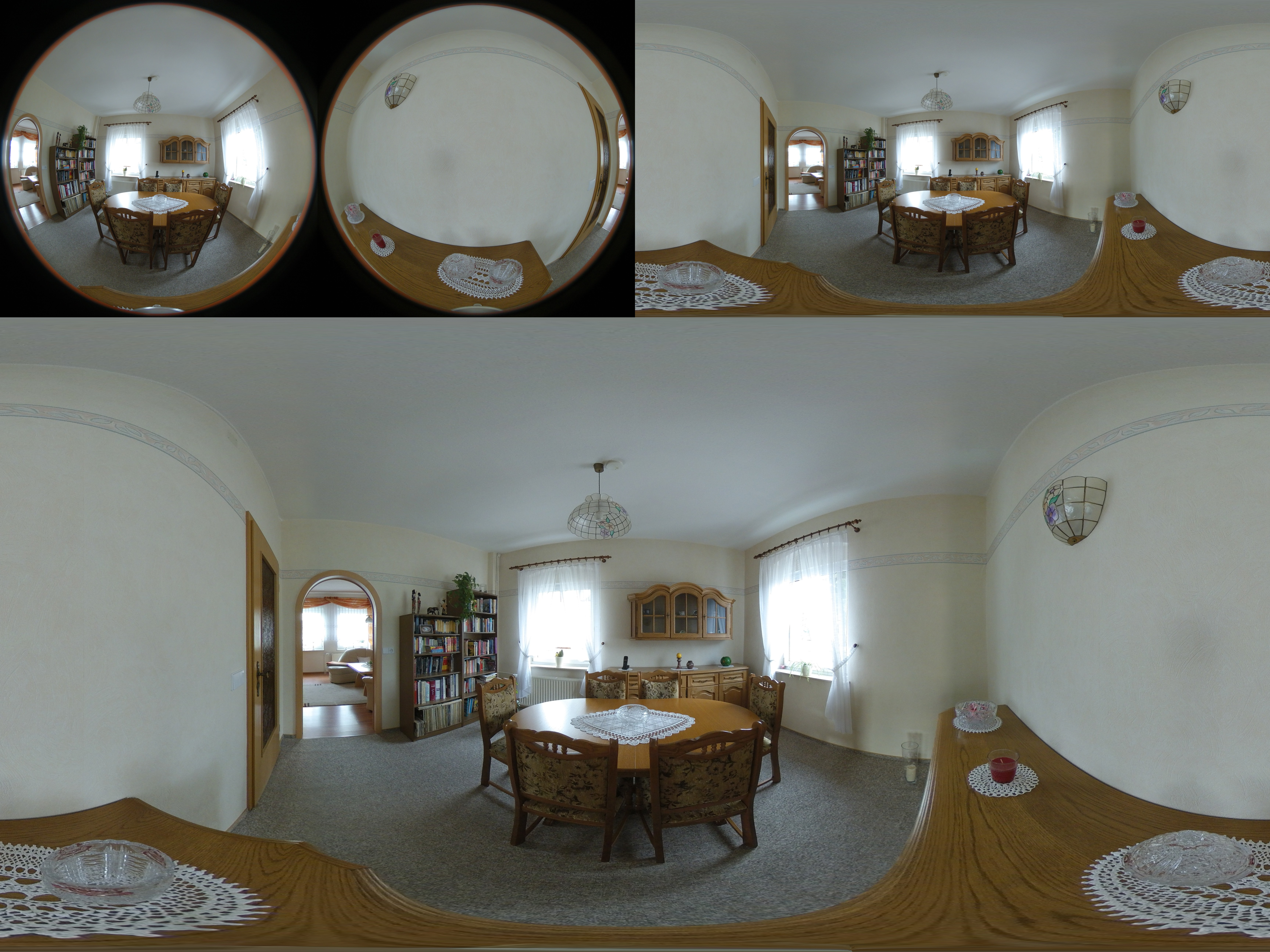 Digital photo, panoramic camera MADV360-QJXJ01FJ. Room with wall straight ahead (4 walls, ceiling and floor). Subimage 1 (top left): Dual fisheye mapping onto memory card, scaled to 50 %. Subimage 2 (top right): By maker software transcoded with gyro-option into spheric panorama 360 DEG x 180 DEG, scaled to 50 % with f = 550,04 pixels. Subimage 3 (bottom): Transcoded speric panorama 360 DEG x 180 DEG for straight viewing direction (1 DEG right) with f = 1100,1 pixels. Same position and direction, like File:Fisheyelens room 0.2x (real 0.25x).jpg. Source image for remapping into other projections (see File usage on Commons). For lossless resecting subimages in JPG-format you can use JPEGTRAN or JPEGCROP (3456x1728+0+0, 3456x1728+3456+0, 6912x3456+0+1728).